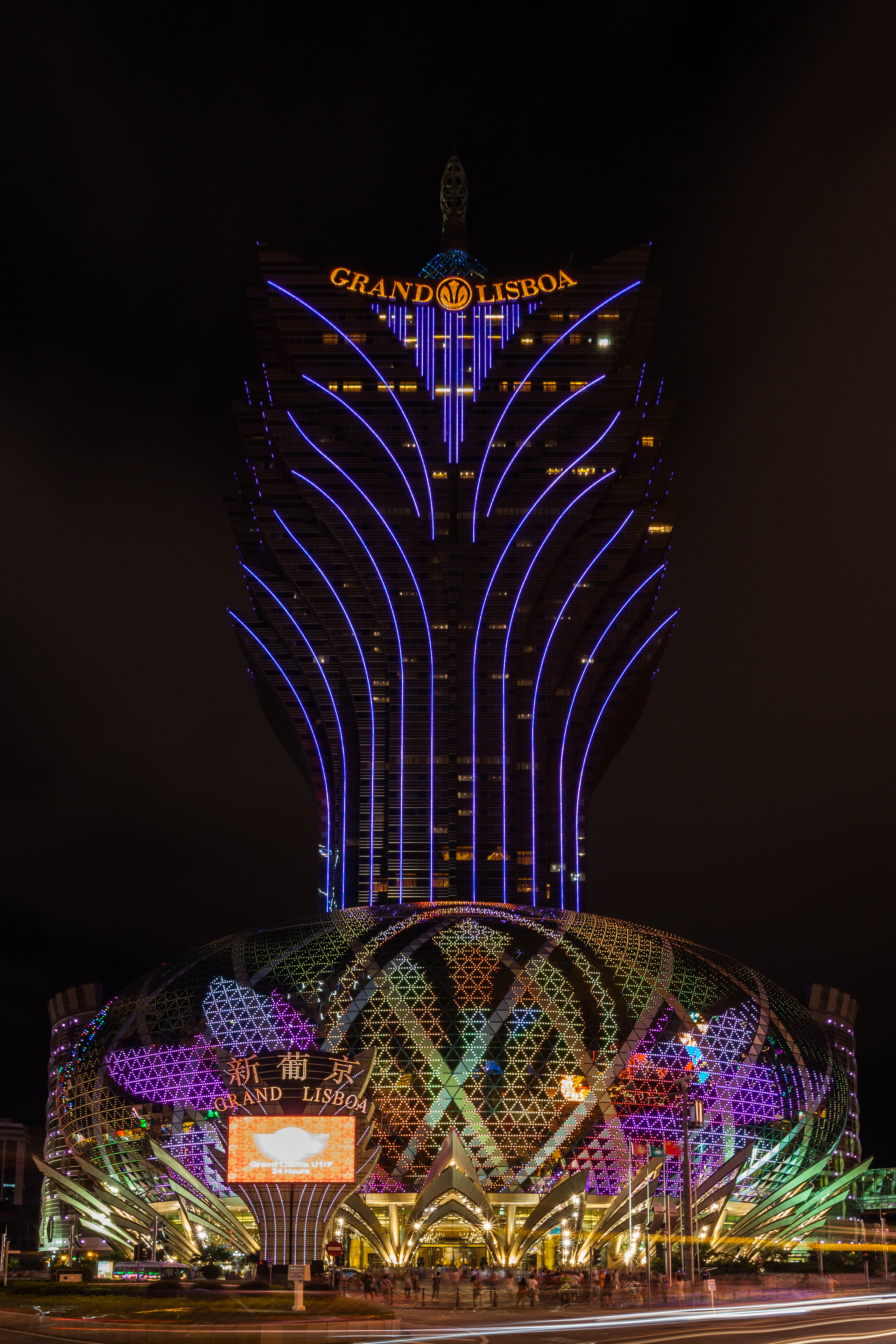 Grand Lisboa Casino, Macau